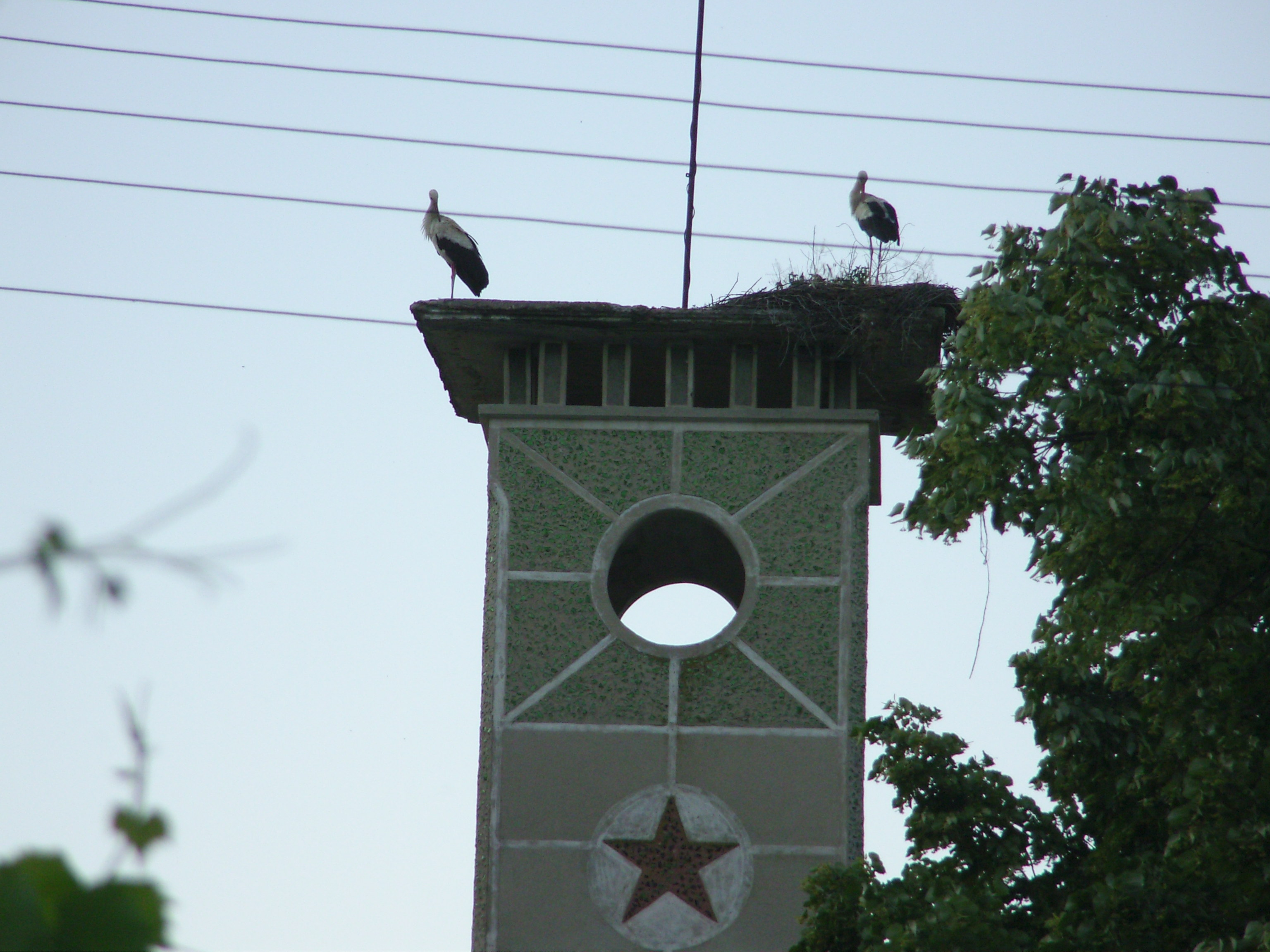 A picture from village Rositsa, Veliko Tarnovo District, Bulgaria